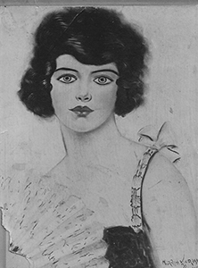 A drawing by Murray Korman of a 1920s flapper